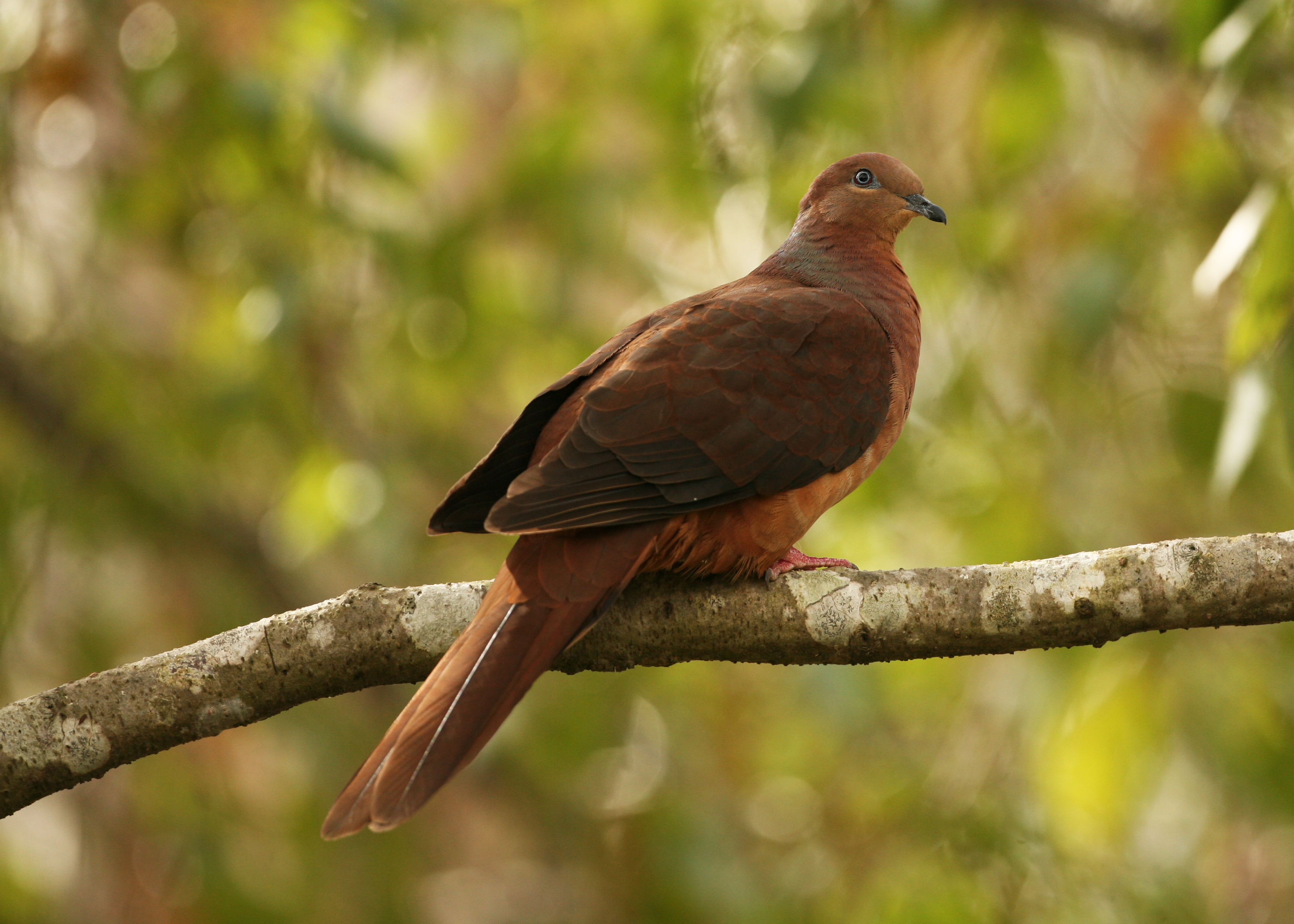 A bird of the rainforest and fringes of rainforests, it is found the length of eastern Australia. It also inhabits islands to the north of Australia. It is known as the Brown Pigeon too. it eats rainforest fruits and berries and berries of introduced weeds.